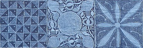 Ornaments of Yoruba textile adire